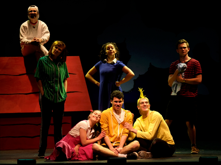 A performance of 'Snoopy!!! The Musical' by the theatre group of Otterbein University